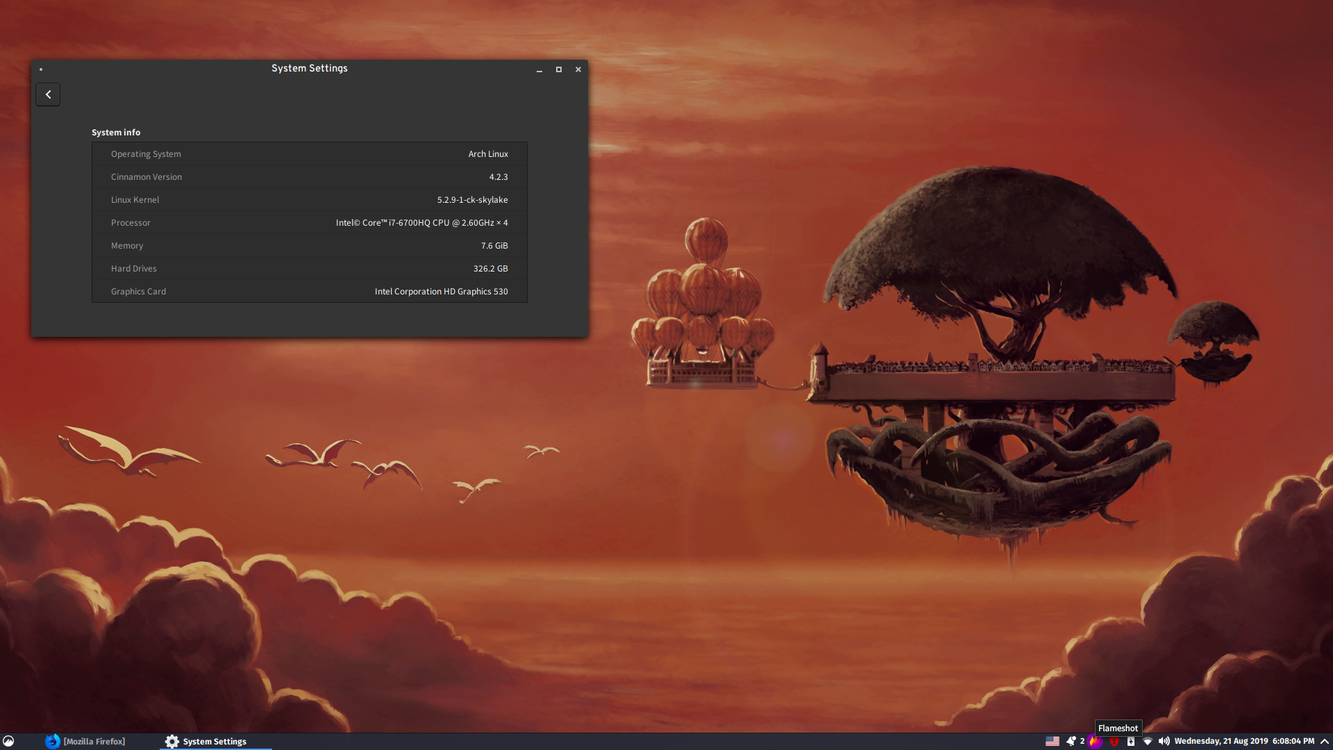 Screenshot of Cinnamon (desktop environment) 4.2.3